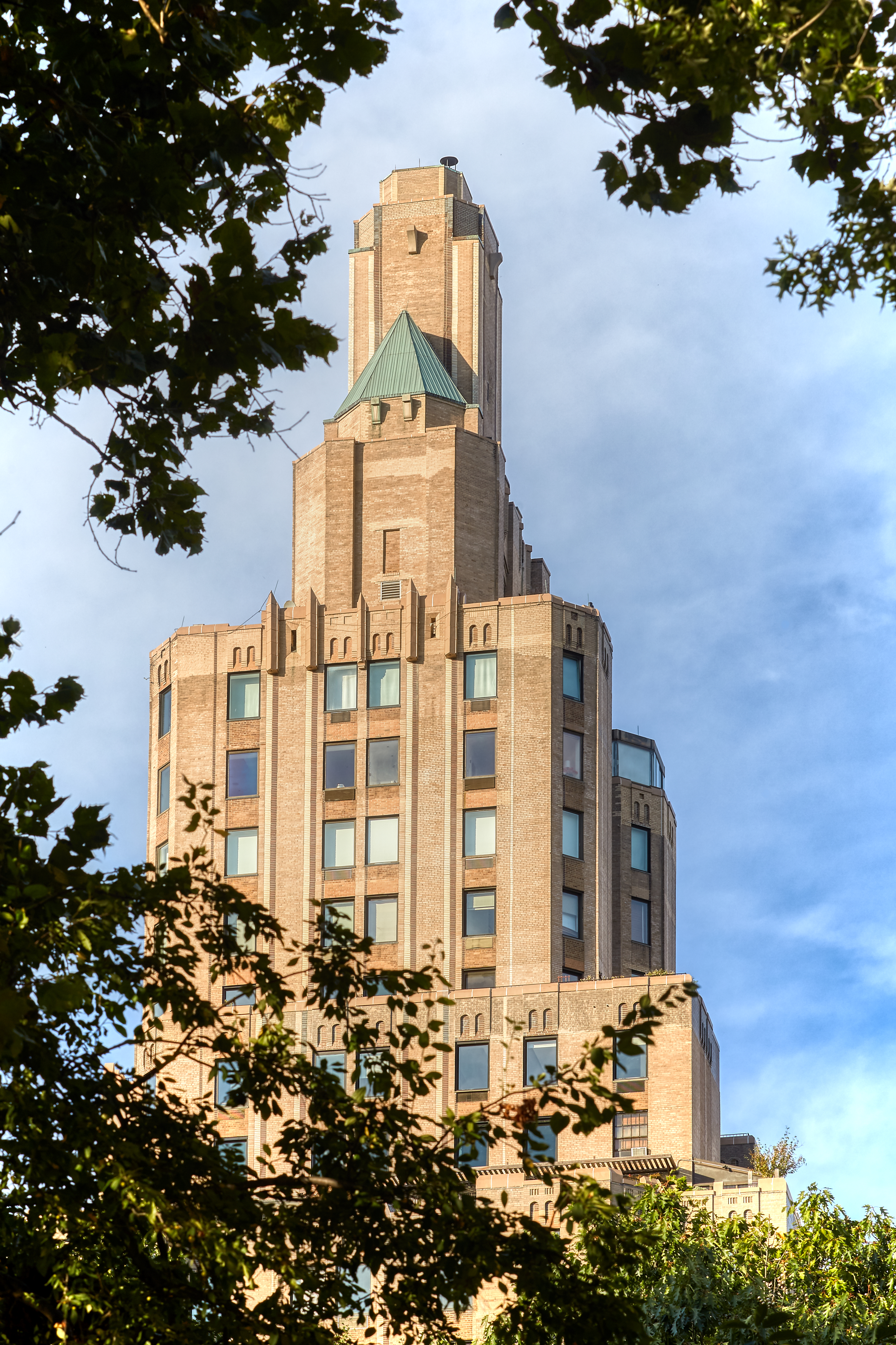 Art Deco Building by Harvey Wiley Corbett on 1 Fifth Avenue, view from Washington Square